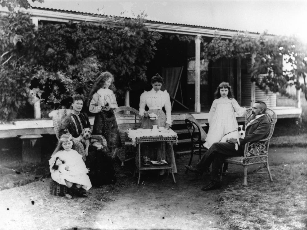 Tea party in the garden, possibly at Nanango, 1900-1910 Family tea party on the drive in front of a house at Nanango?, 1900-1910. The group is well-dressed. The furniture includes a cane table and some cane chairs. A girl sits at the front to the left and holds a doll. A man and a woman sit in chairs and each have a dog on their laps. A woman standing in the centre of the group is pouring tea. Creepers cover the verandah of the house. A deck chair and water tank can be seen on the verandah.